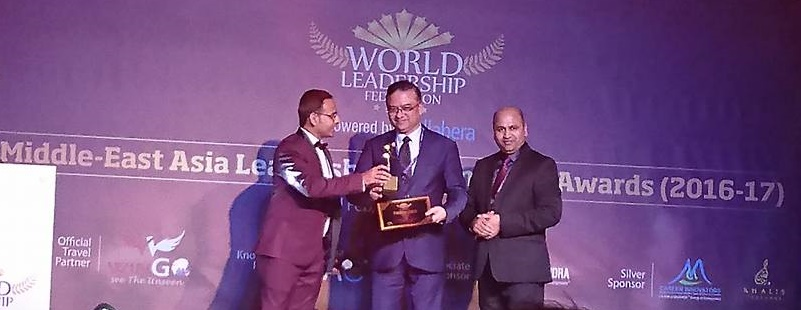 leadership awards